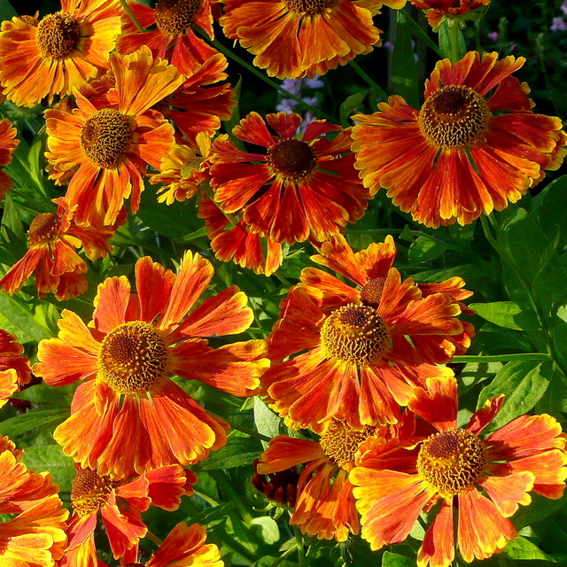 Helenium 'Waltraut'. Classic orange flowers of the Aster family glowing in the sunshine at 7am on a July morning.